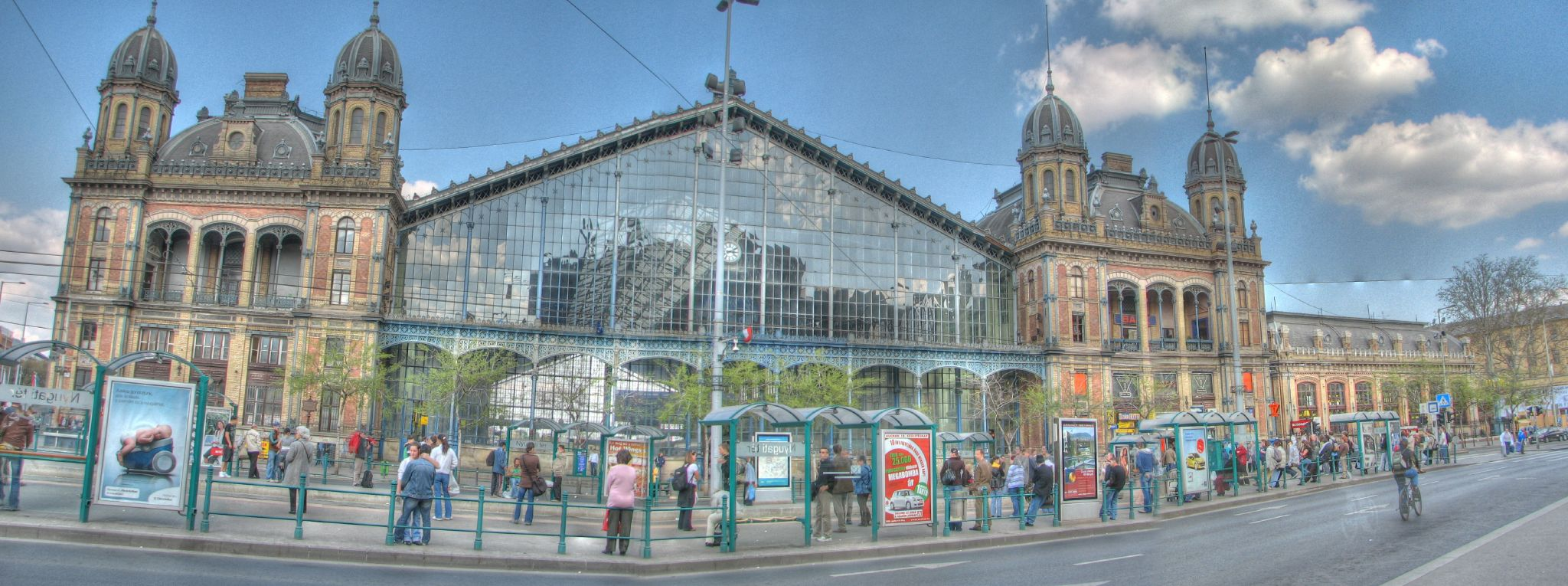 Budapest Station 02 HDR ST